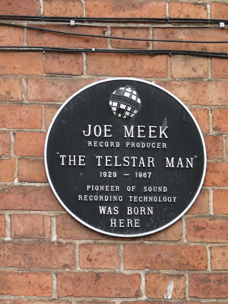 Joe Meek record producer "The Telstar Man" 1929-1967 pioneer of sound recording technology was born here Photograph by Robert Thursfield